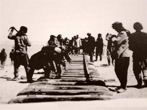 Workers building the Hijaz Railway